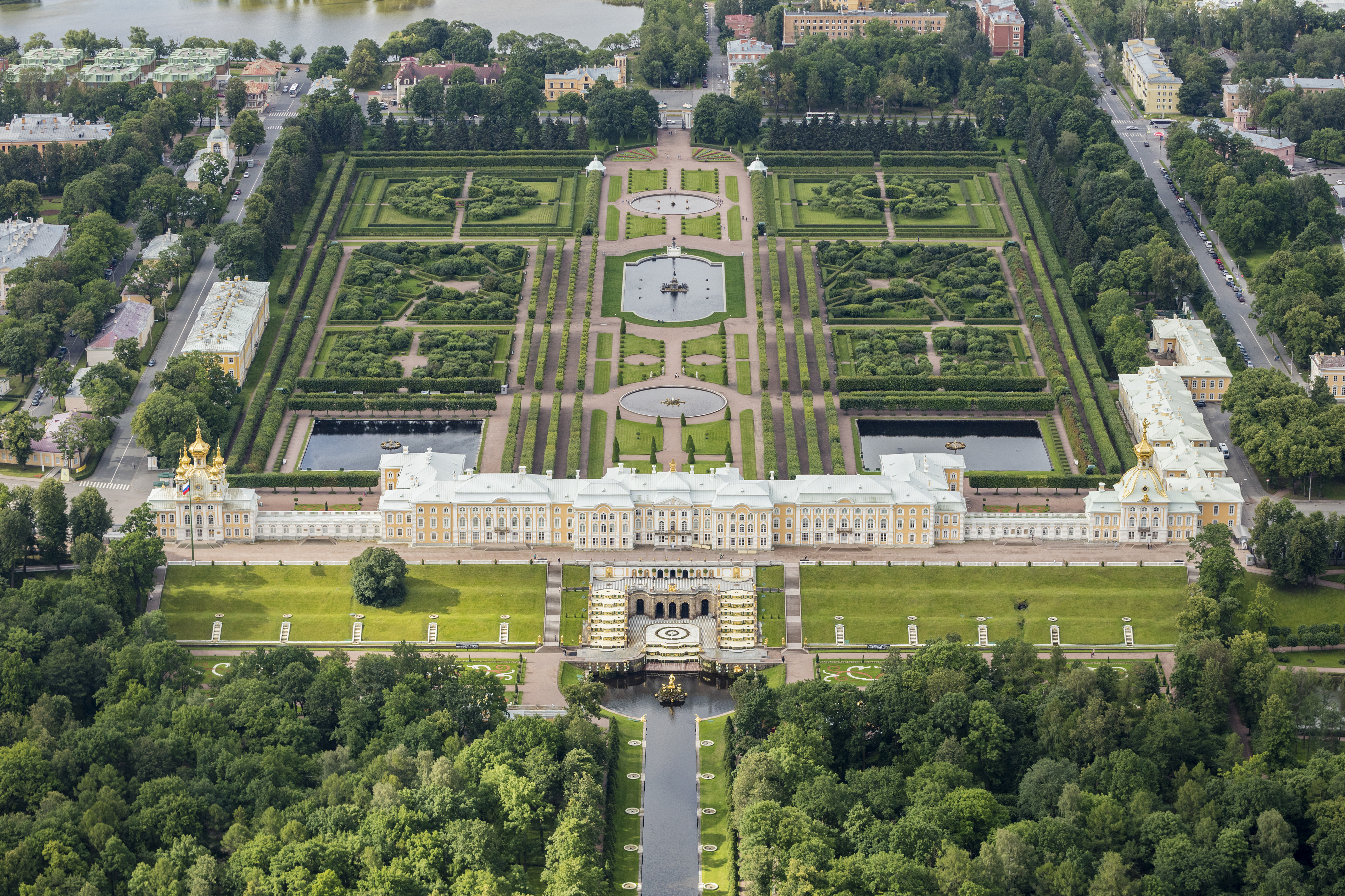 Aerial photo of Peterhof Palace, in Petergof, Saint Petersburg, Russia. Initiated by Peter the Great, the grounds are sometimes referred as the "Russian Versailles".